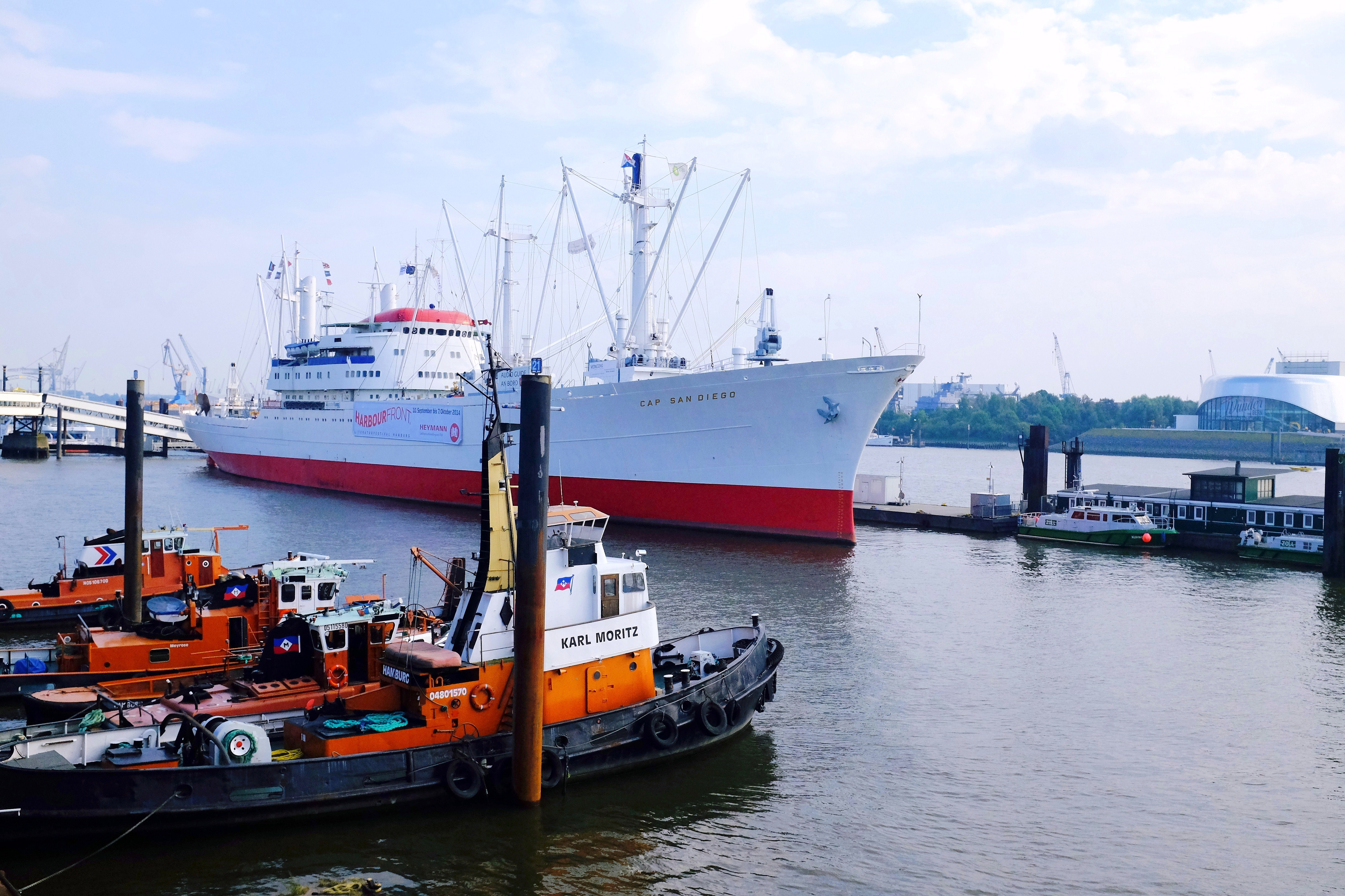 Cap San Diego